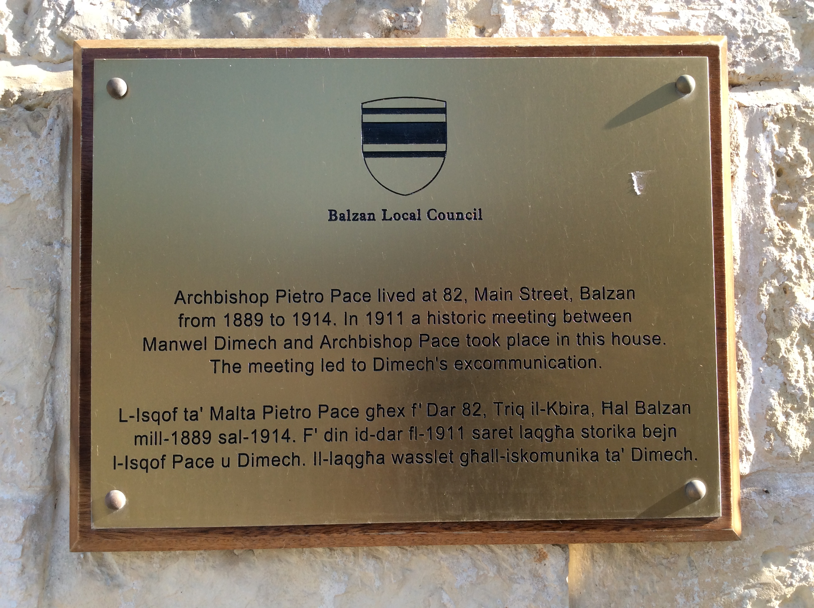 Balzan